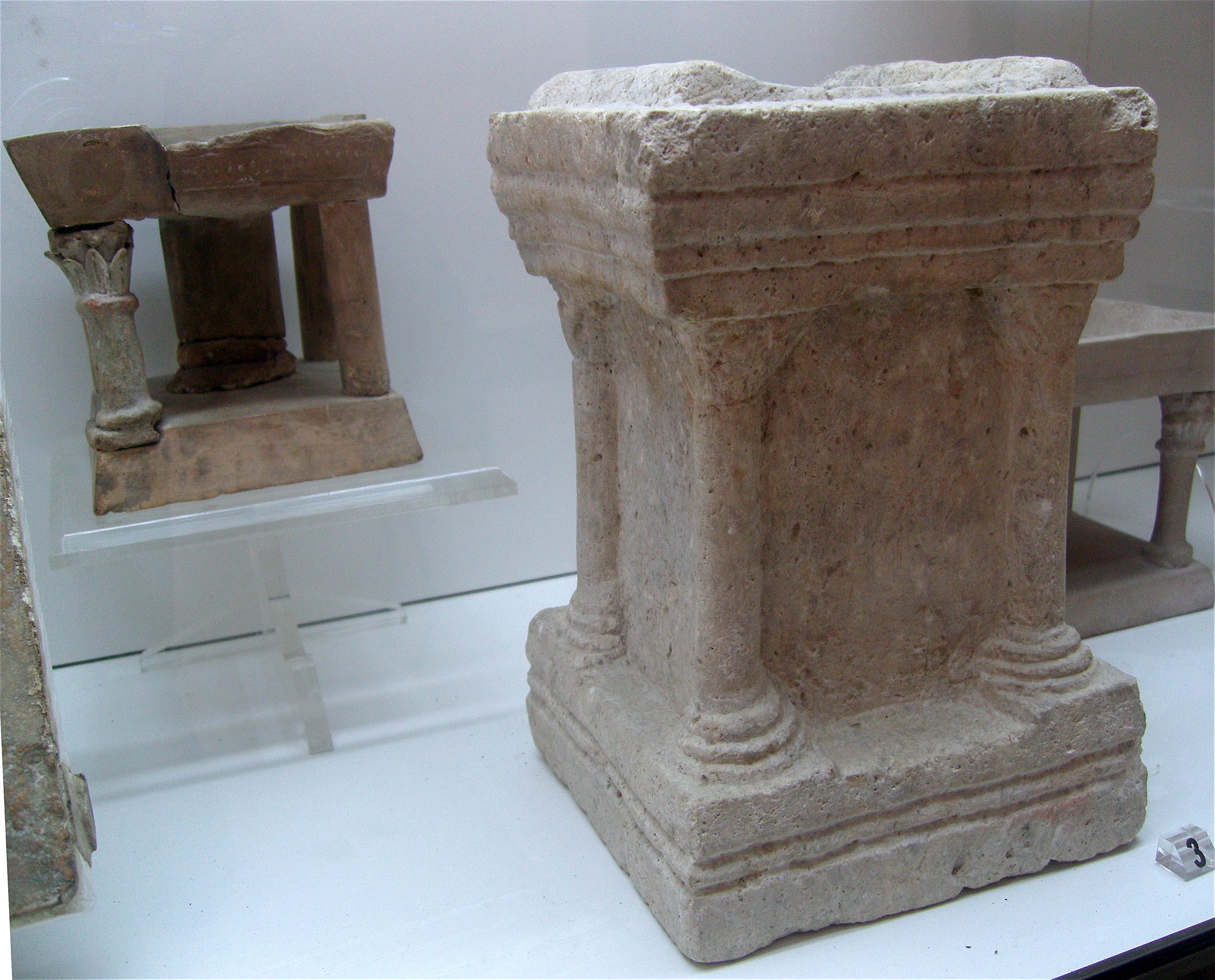 Vautive altars with columns